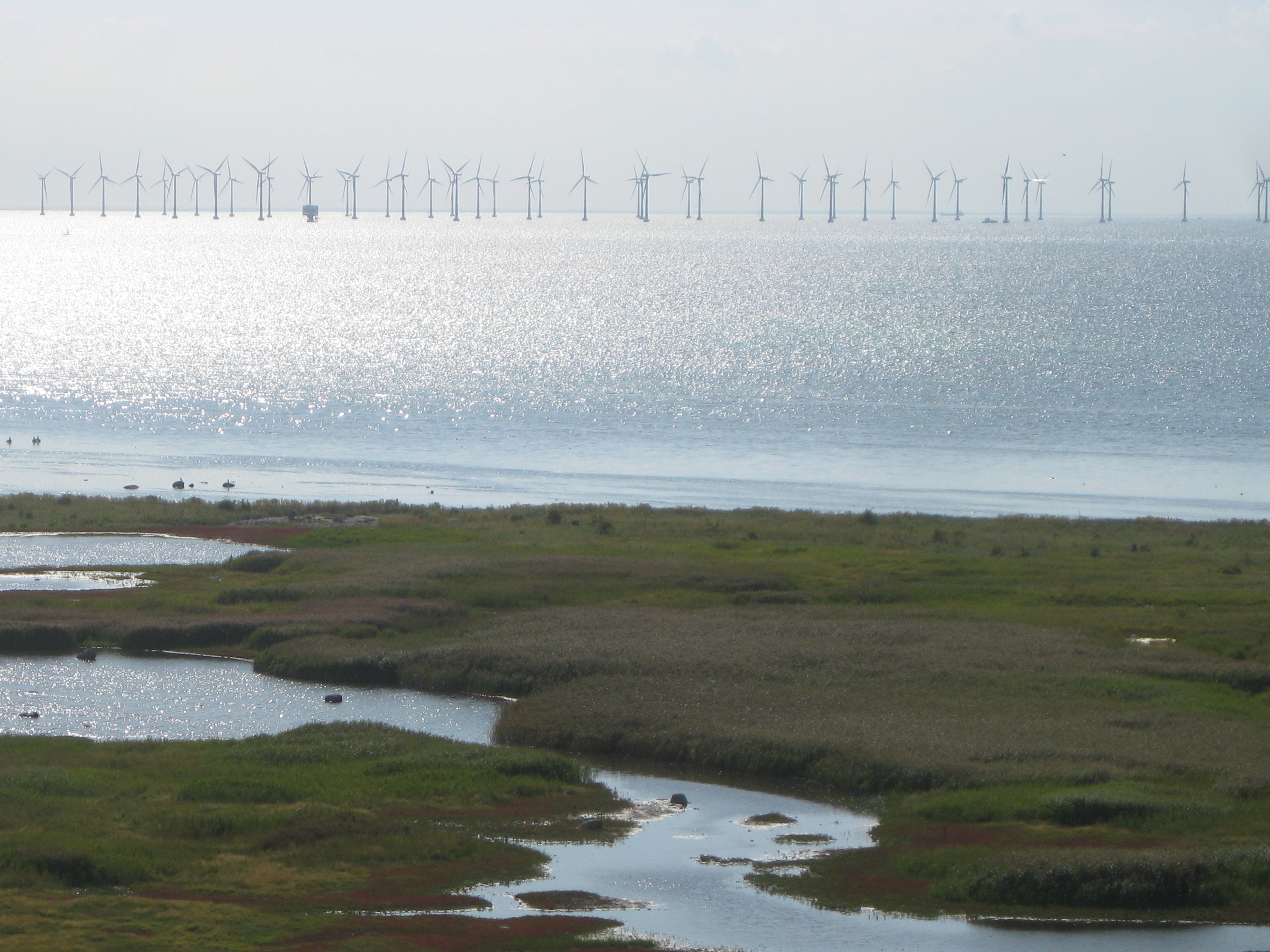 Marshland at Bunkeflostrand near Öresundsbron in Sweden. Lillgrund Wind Farm in the rear.